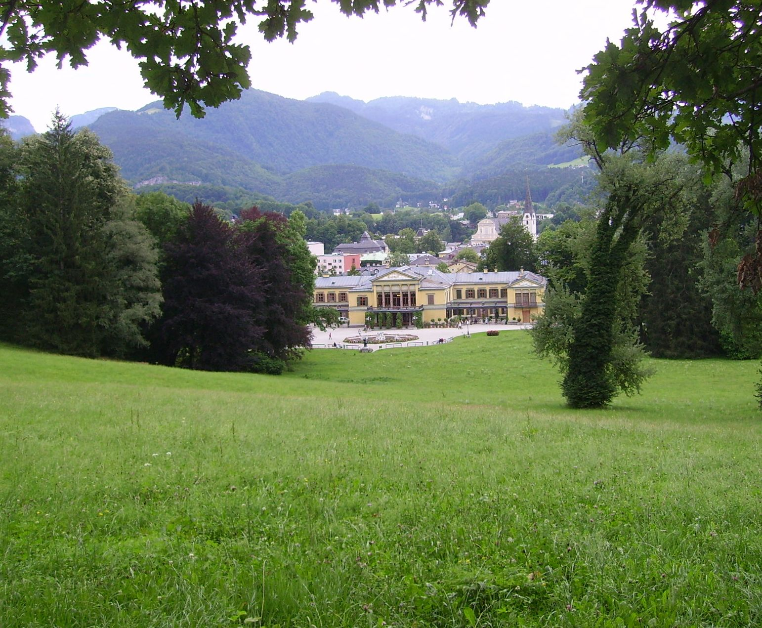 Austria, Bad Ischl, Kaiservilla